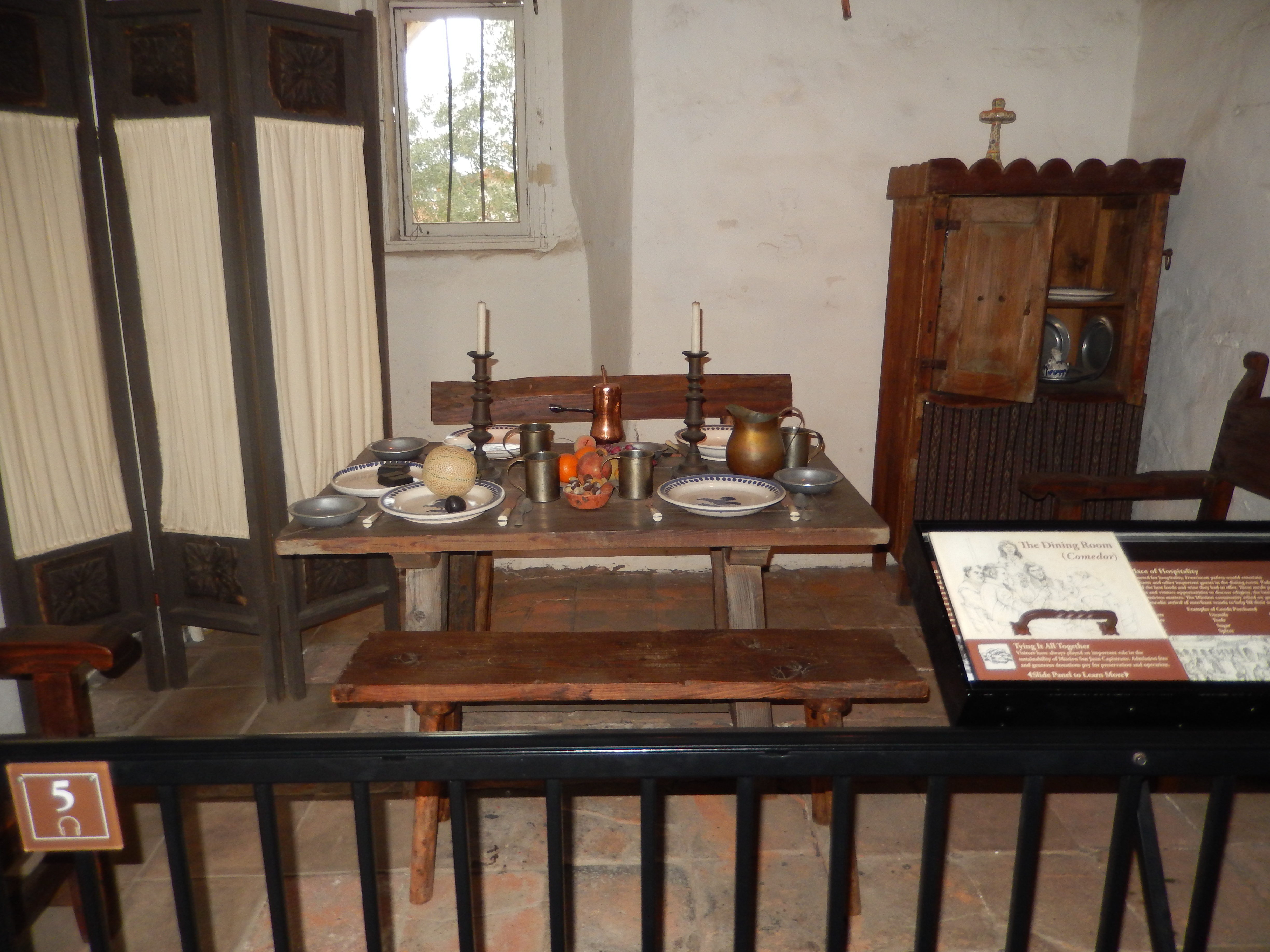 I took photo of dining room, one of the period rooms at Mission San Juan Capistrano, CA, with Nikon camera.